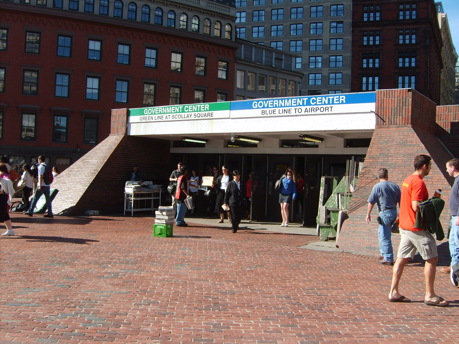 A shot of the entrance/headhouse to the Government Center MBTA station on a sunny June afternoon. The station gives access to the Green Line streecars and the Blue Line subway.